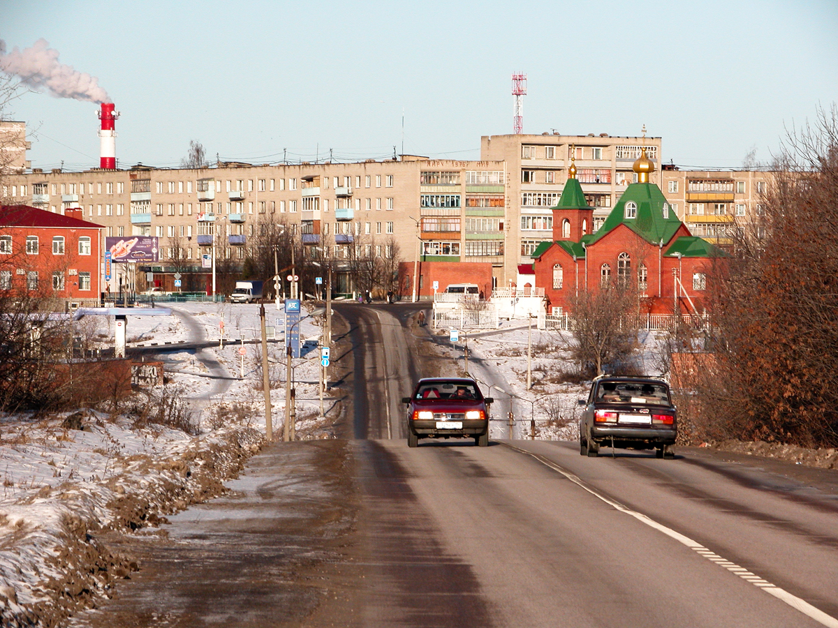 The entrance to the city from the plant, Lukhovitsy